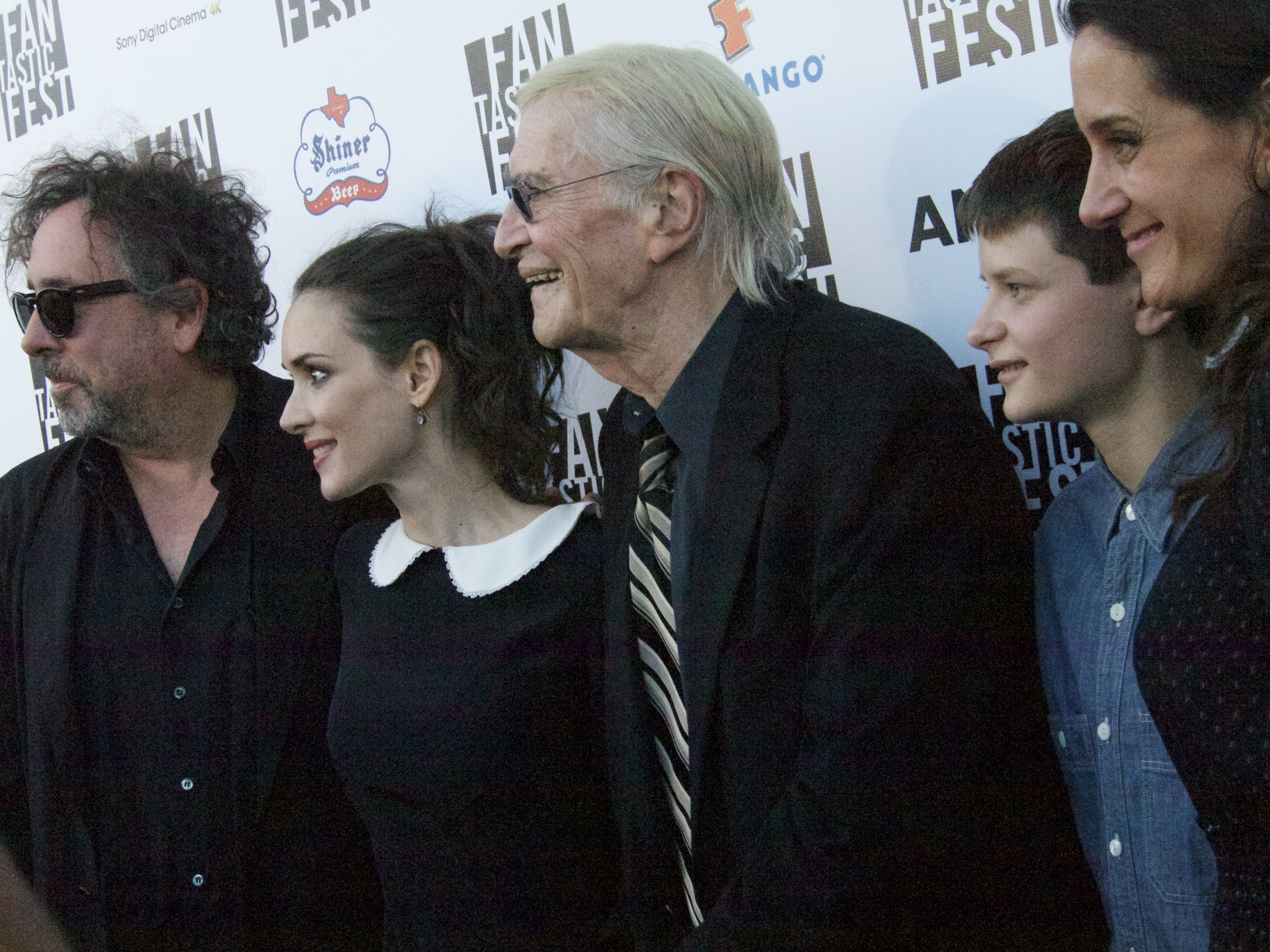 Tim Burton, Winona Ryder, Martin Landau and Charlie Tahan at the "Frankenweenie" premiere at the Fantastic Fest in Austin, Texas.